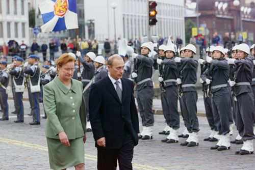 HELSINKI. President Putin and his Finnish counterpart, Tarja Halonen, during the welcoming ceremony.